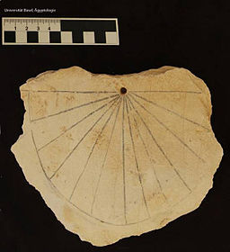 Ancient Egyptian Sundial housed at University of Basel